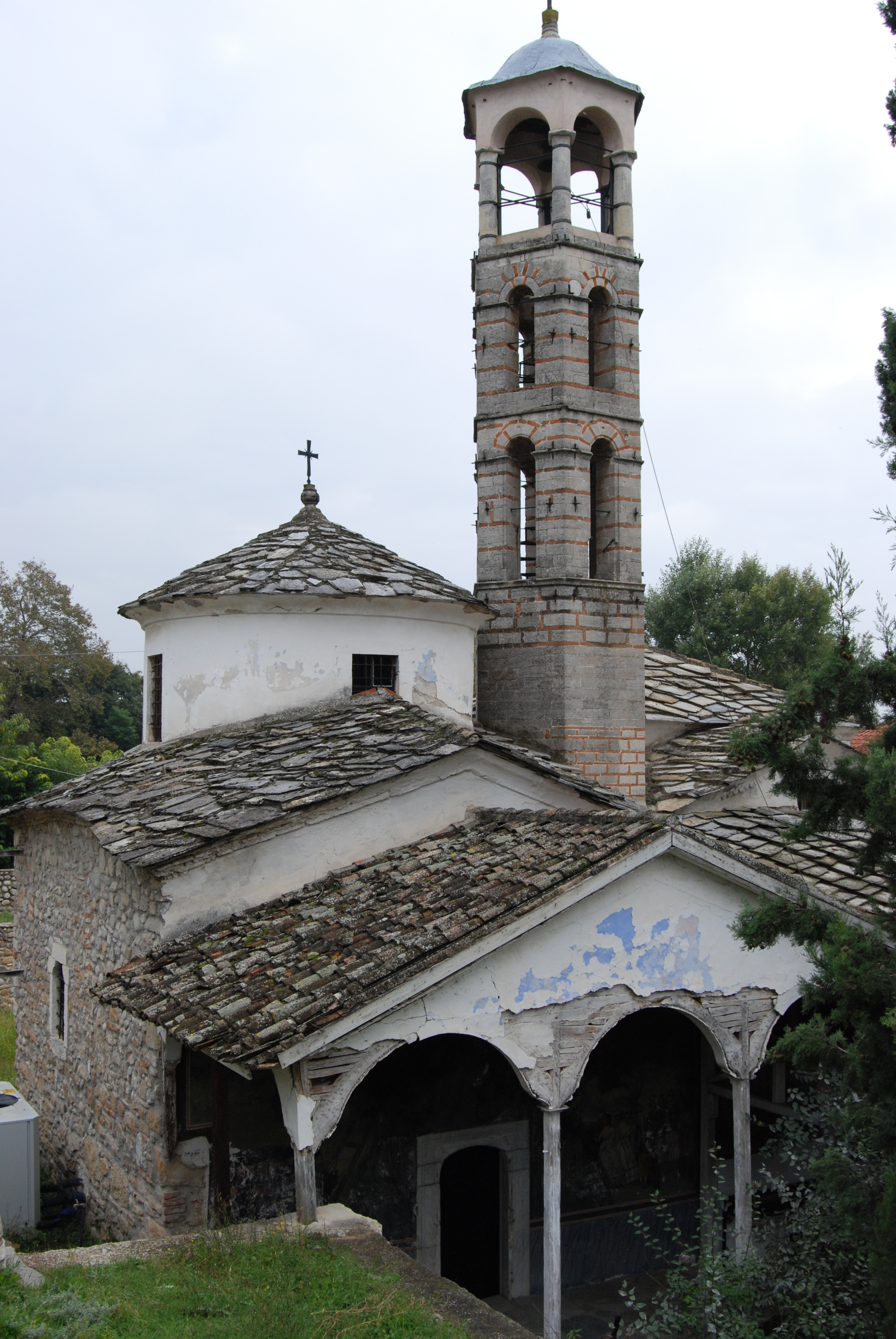 Saint George Kryoneritis Church